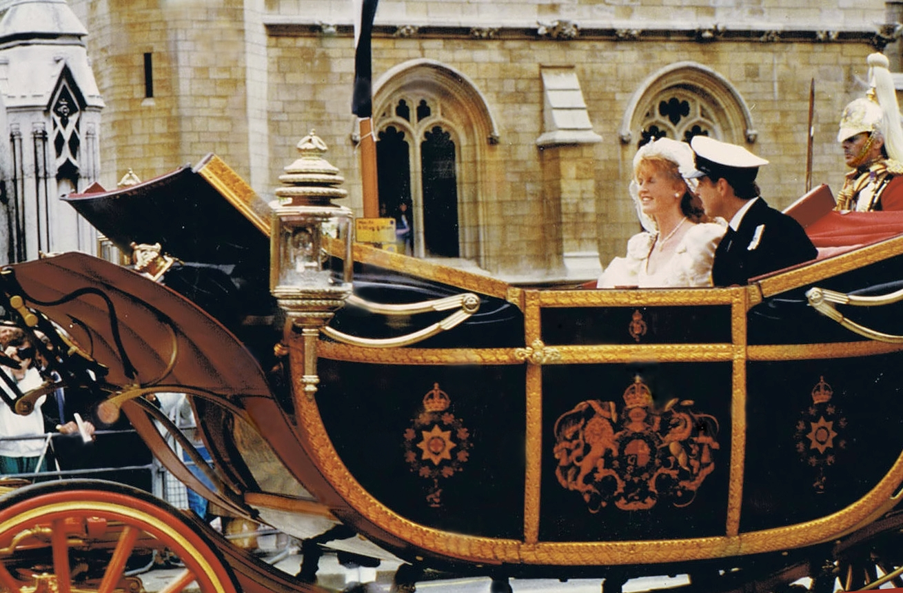 Parade following the marriage of Andrew Mountbatten-Windsor, Duke of York to Sarah Ferguson in London, Westminster